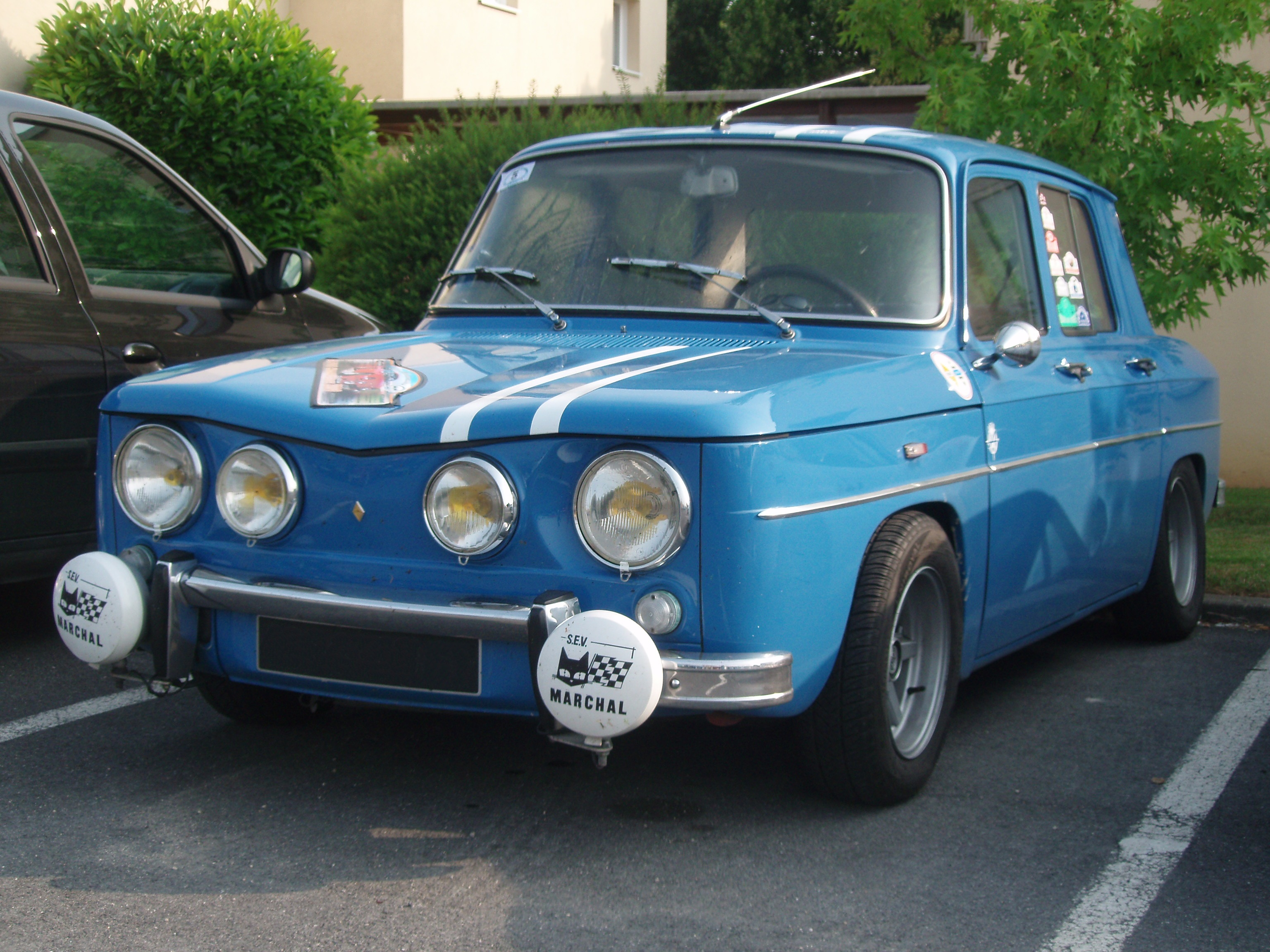 A Renault R8 Gordini